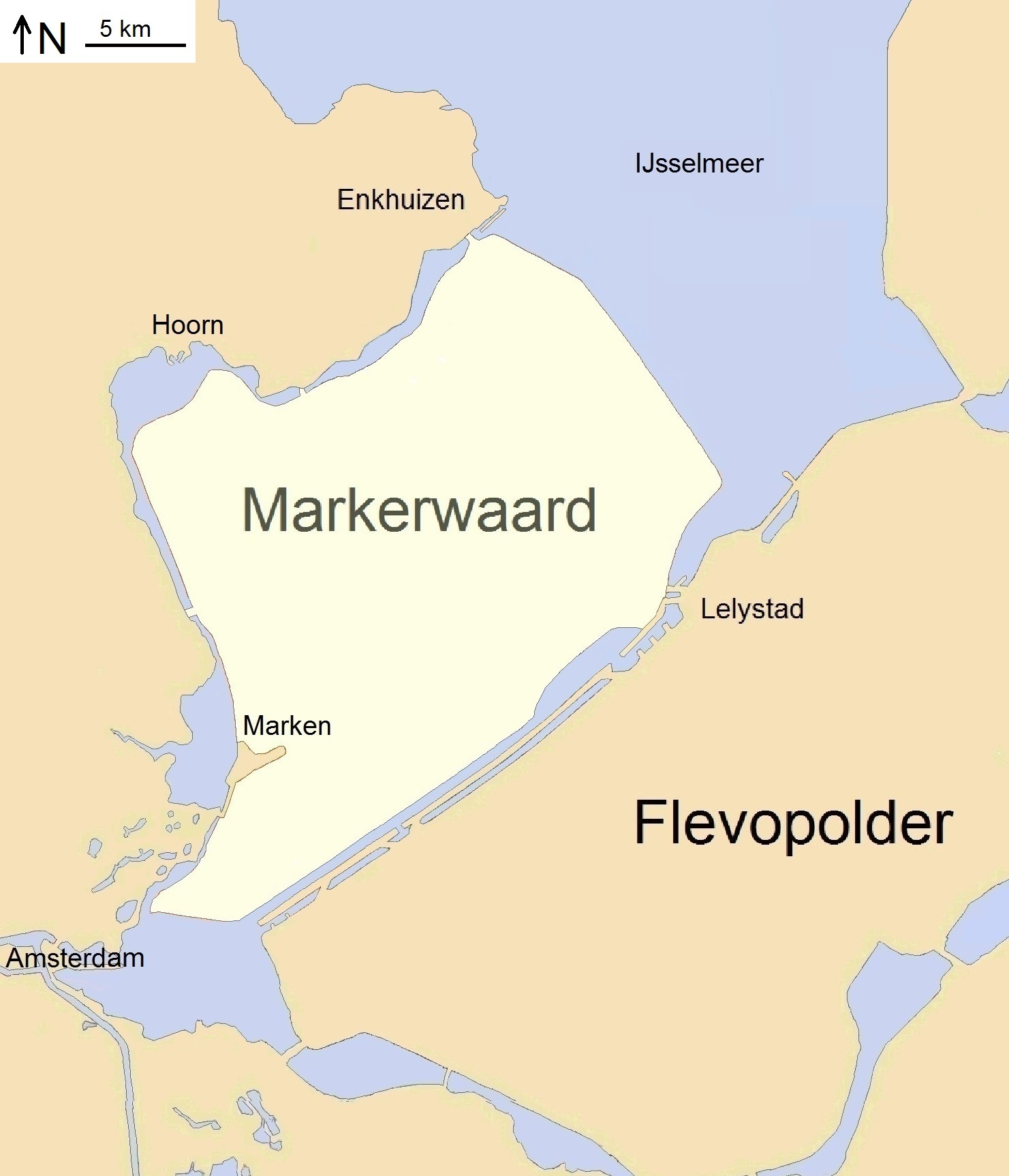 Markenwaard in 1960's